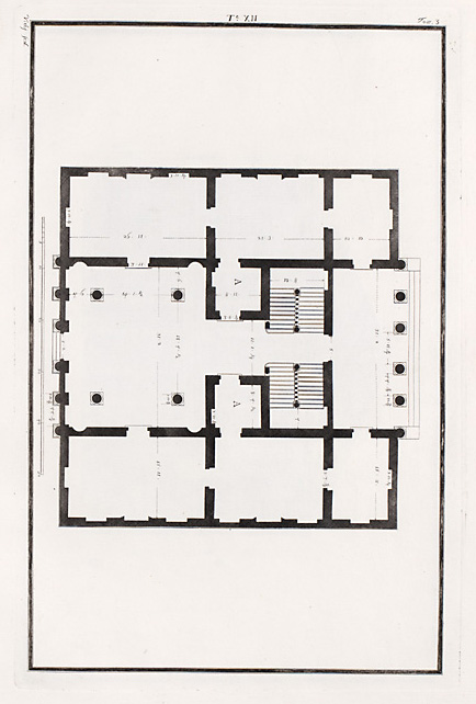 Palazzo Antonini in Udine, by Andrea Palladio. Drawing by Ottavio Bertotti Scamozzi, 1781